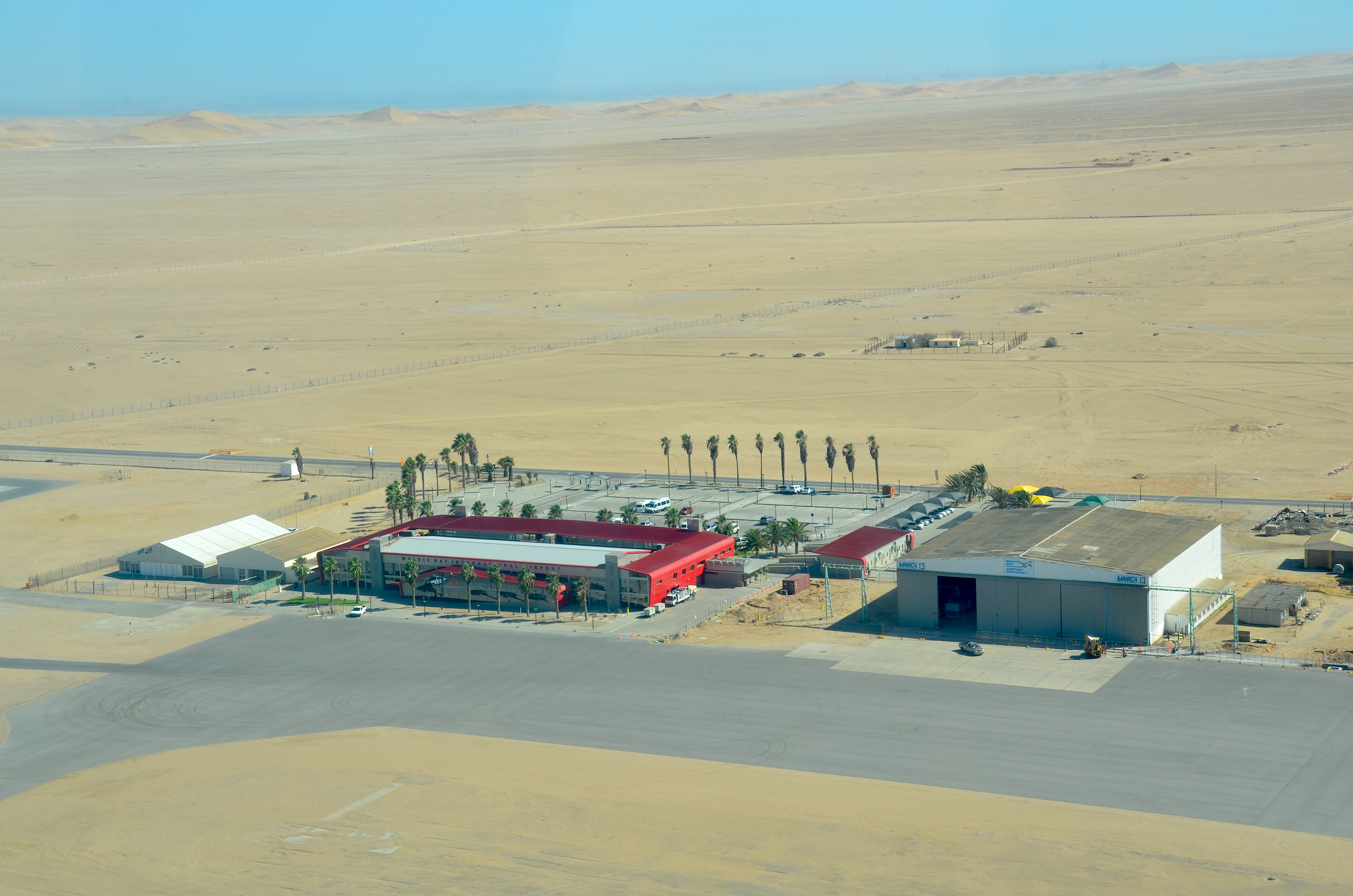 Walvis Bay Airport from Bird´s eye view (2017)